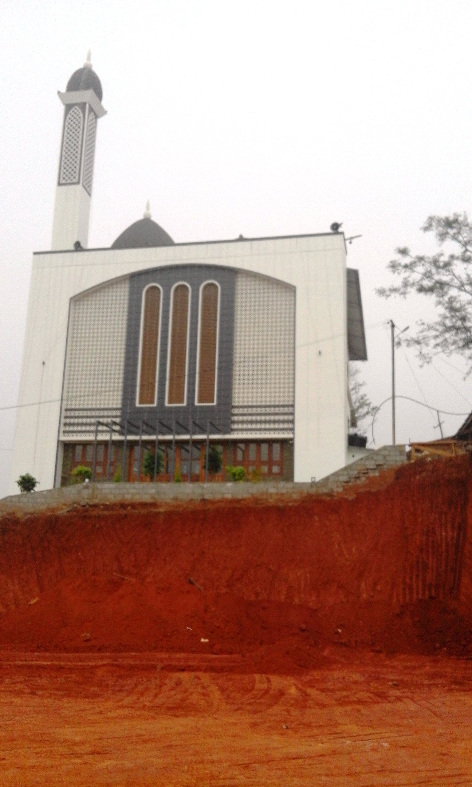 Badhar Masjidh, Mysore Road, Mananthavady, Wayanad District, Kerala province, India